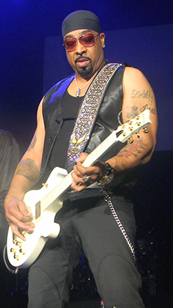 Tommy Organ playing guitar